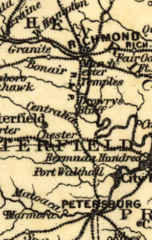 Map Showing the Norfolk - Wilmington and Charleston Railroad in 1891 cropped to show Richmond and Petersburg Railroad